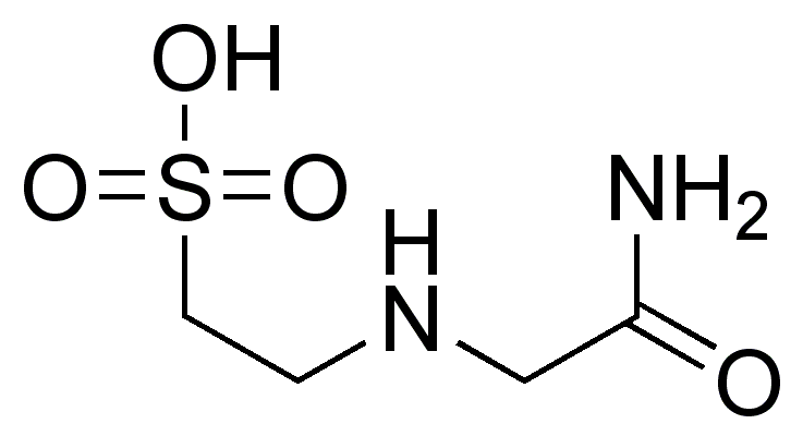 Chemical structure of N-(2-Acetamido)-2-aminoethanesulfonic acid, drawn in ChemDraw.